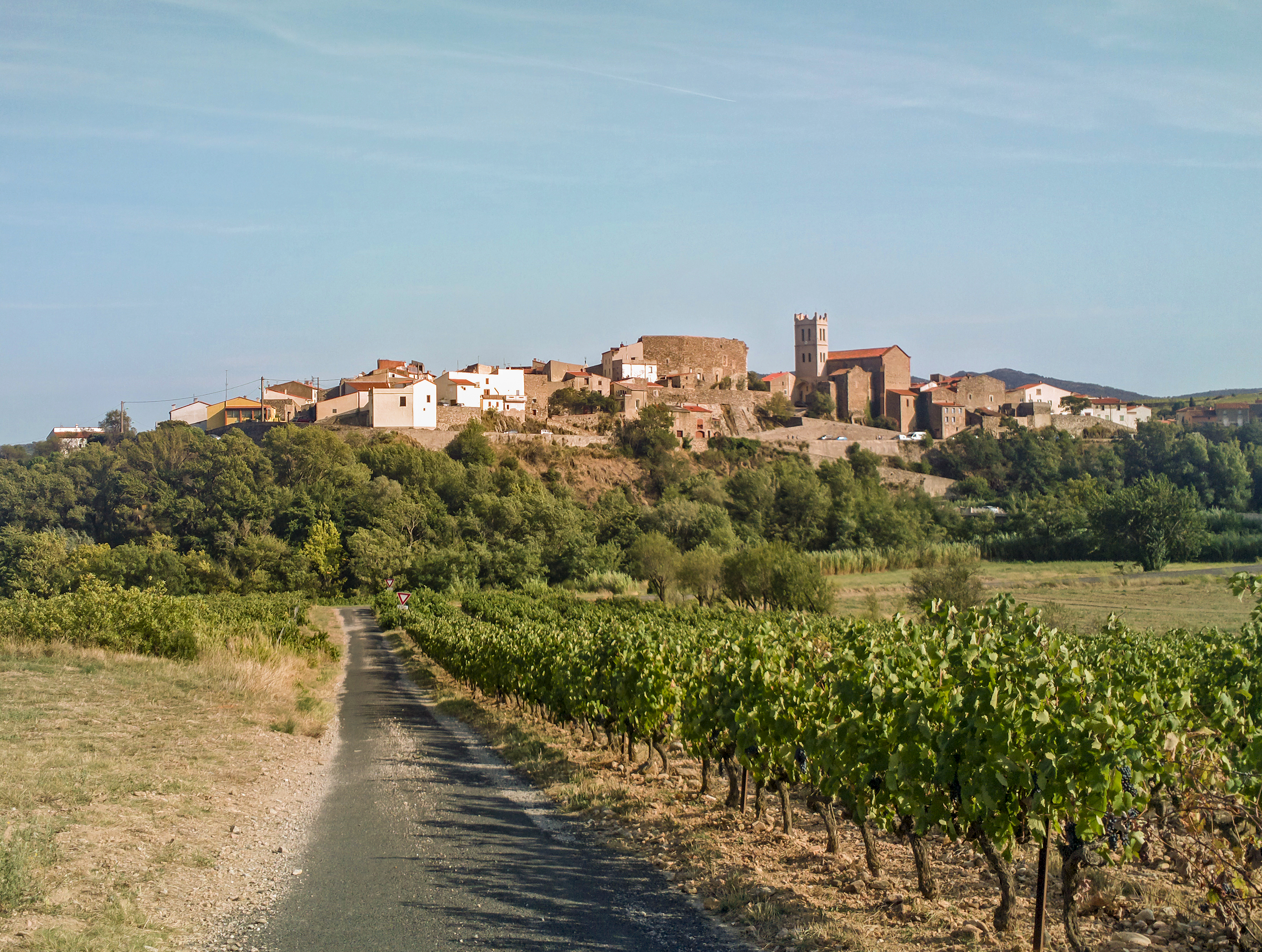 Latour-de-France, Pyrénées-Orientales, France - northwestern exposure.